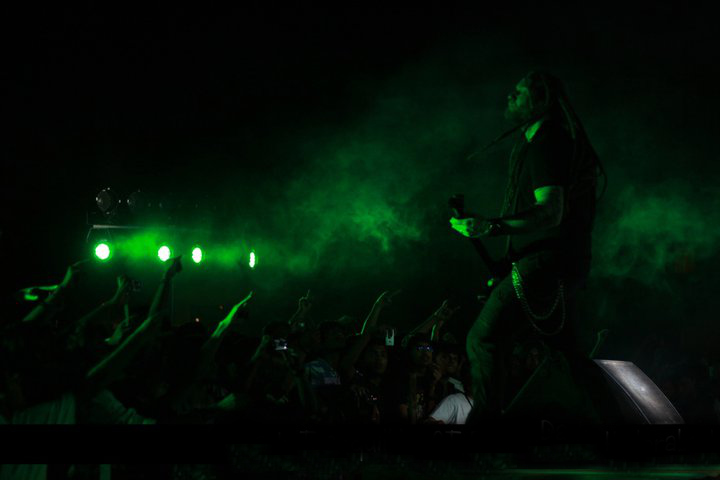 DT performing at Pearl '11, BITS Pilani Hyderabad Campus